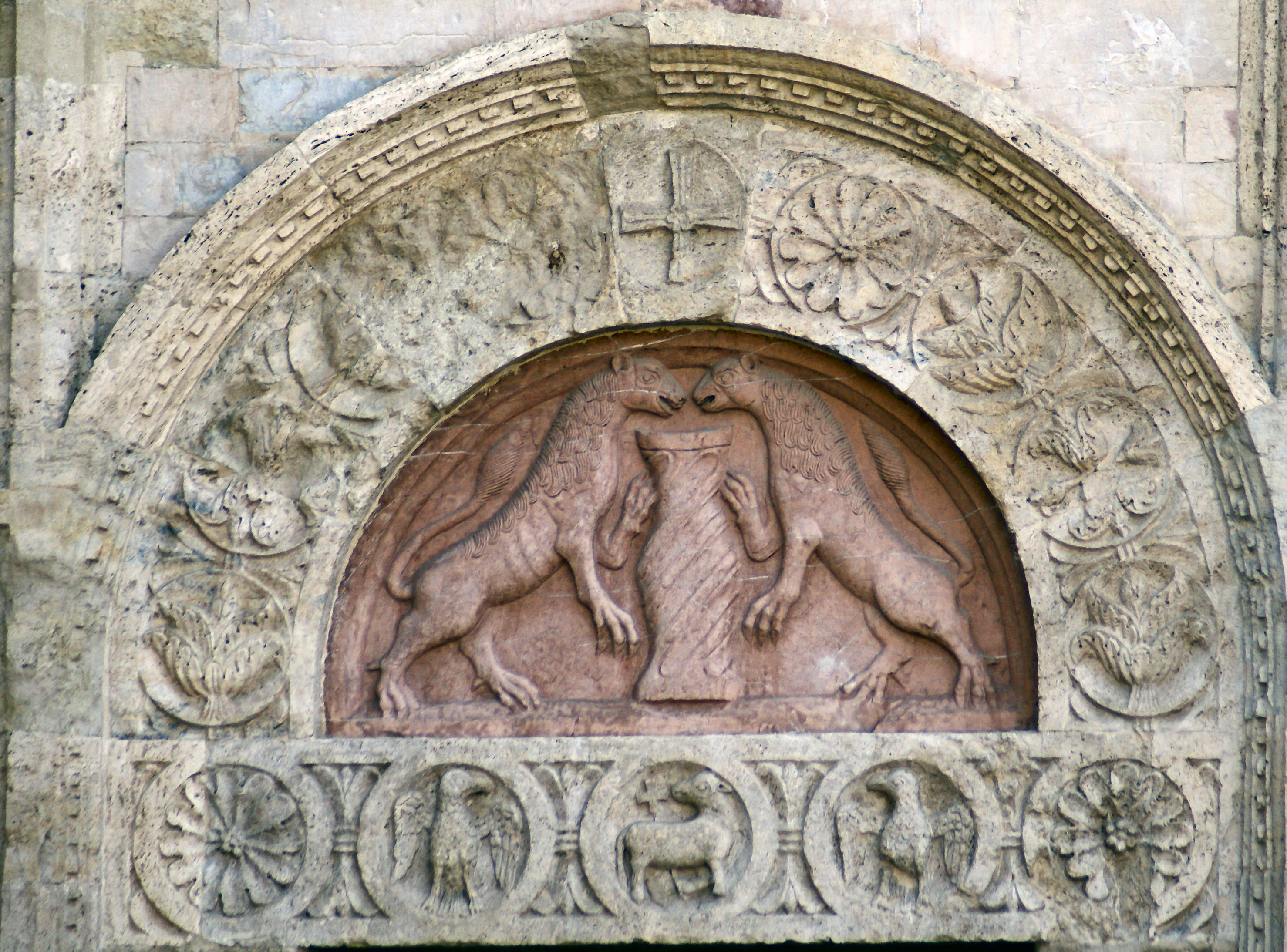 San Rufino, Cathedral of Assisi, tympanon of the left portal